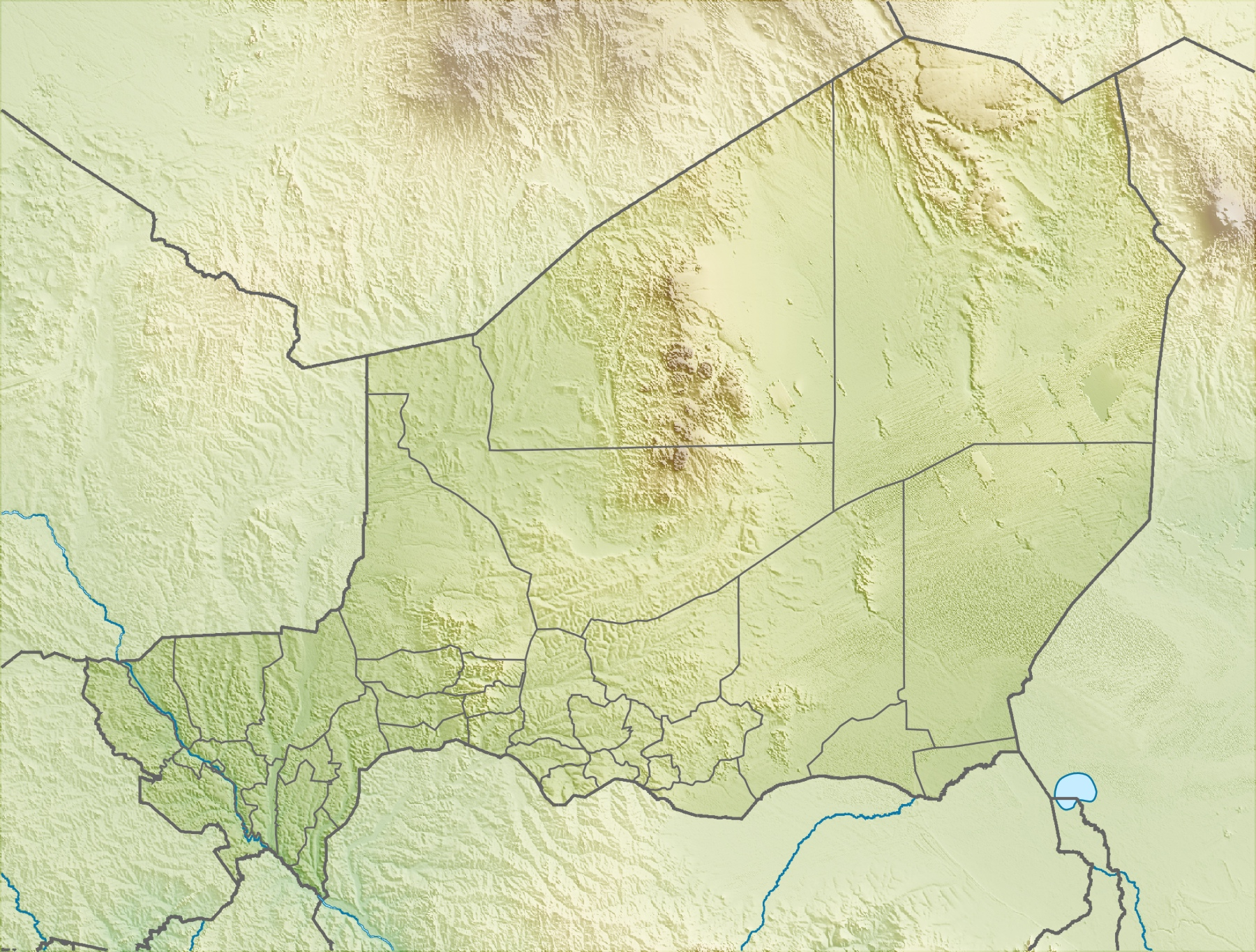 Physical location map of Niger Equirectangular projection, N/S stretching. Geographic limits of the map: N: 24° N S: 11° N W: 1° W E: 17° E